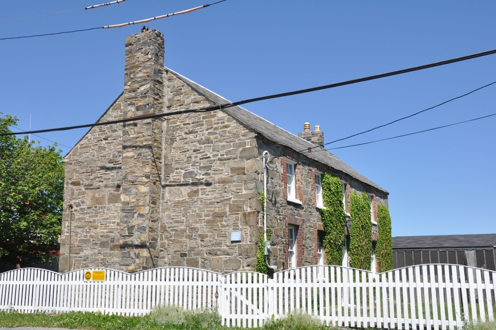 Ridley Office, Harbour Grace, Newfoundland.